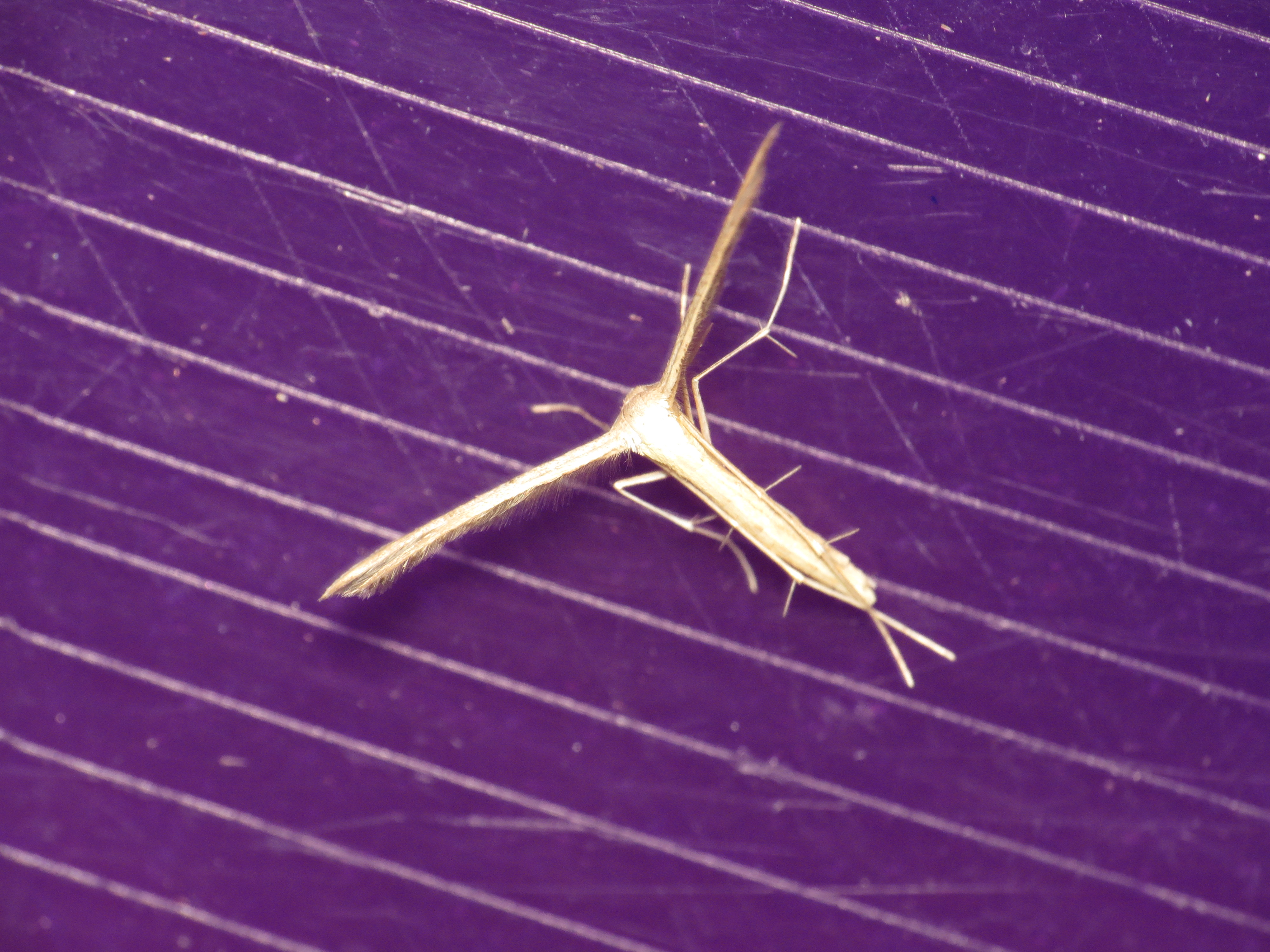 Hepalastis pumilio Zeller, 1873, to actinic light, Clump Point, Mission Beach, QLD, 23/24 November 2014